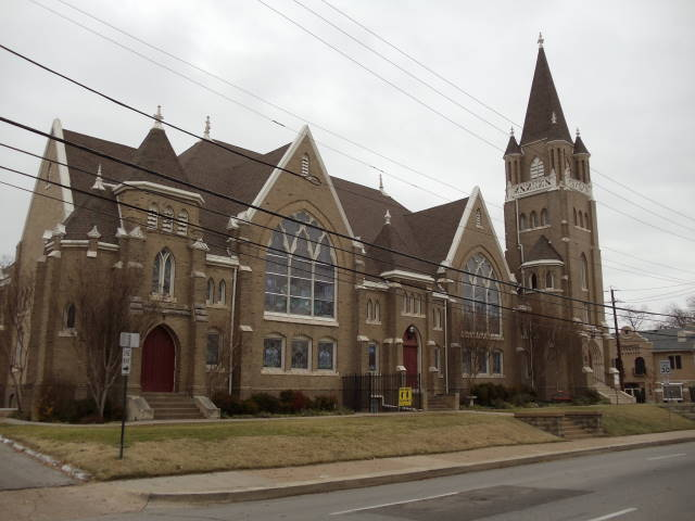 Grace United Methodist Church